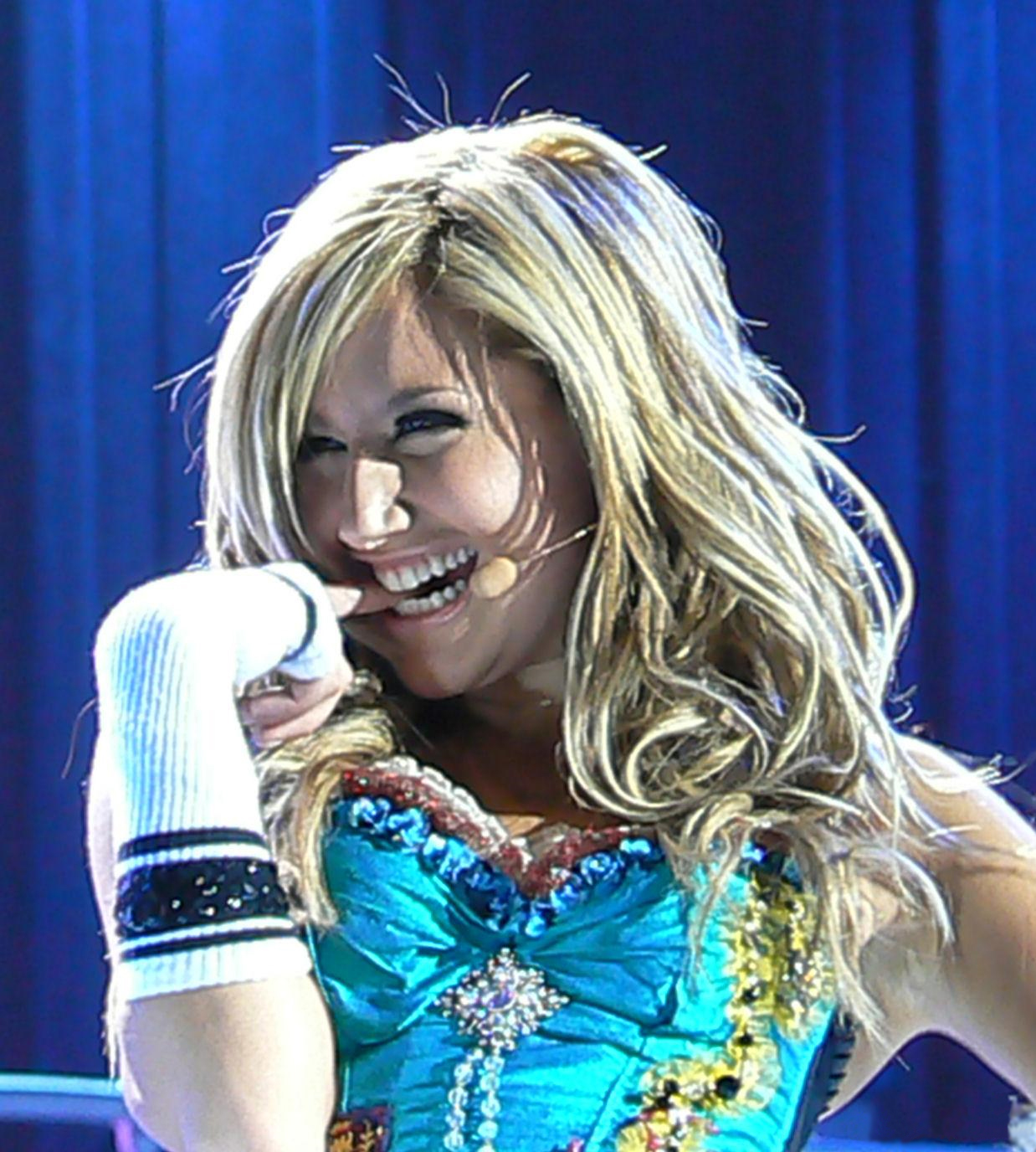 Ashley Tisdale in January 2007 during a concert of High School Musical 1